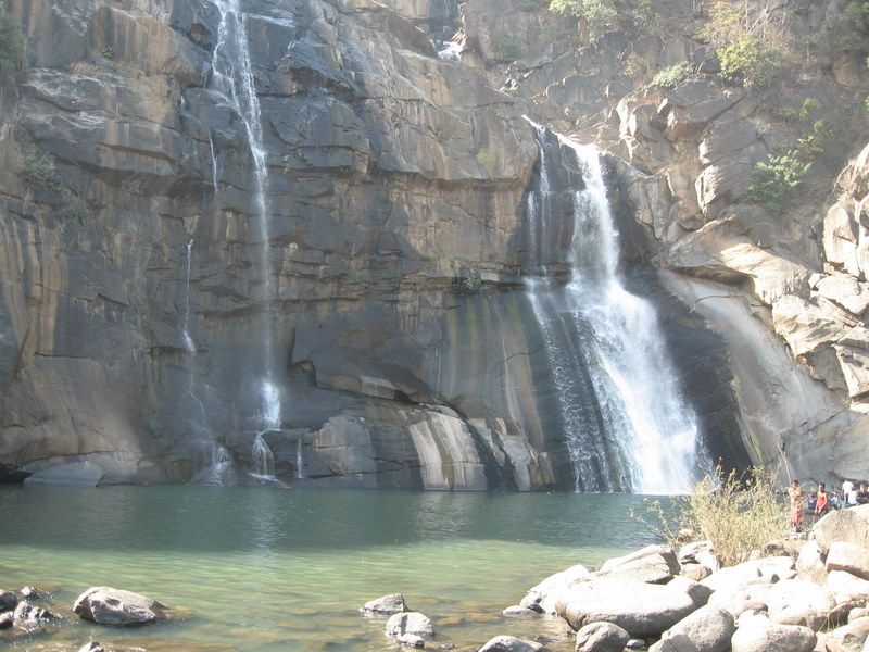 Hundru falls are a favourite for tourists